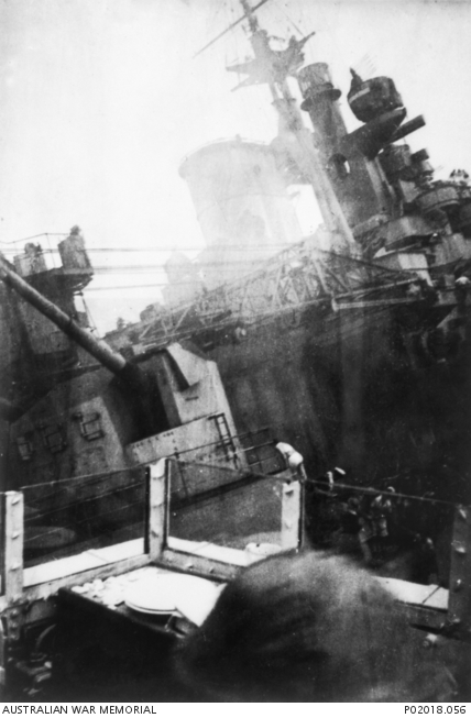 East Coast of Malaya. 1941-12-10. The new RN battleship HMS Prince of Wales and the battle cruiser HMS Repulse were sunk by Japanese air attack on 1941-12-10. 800 lives were lost. HMS Prince of Wales is seen listing heavily after the attack. Members of the crew scramble over the side into life boats.